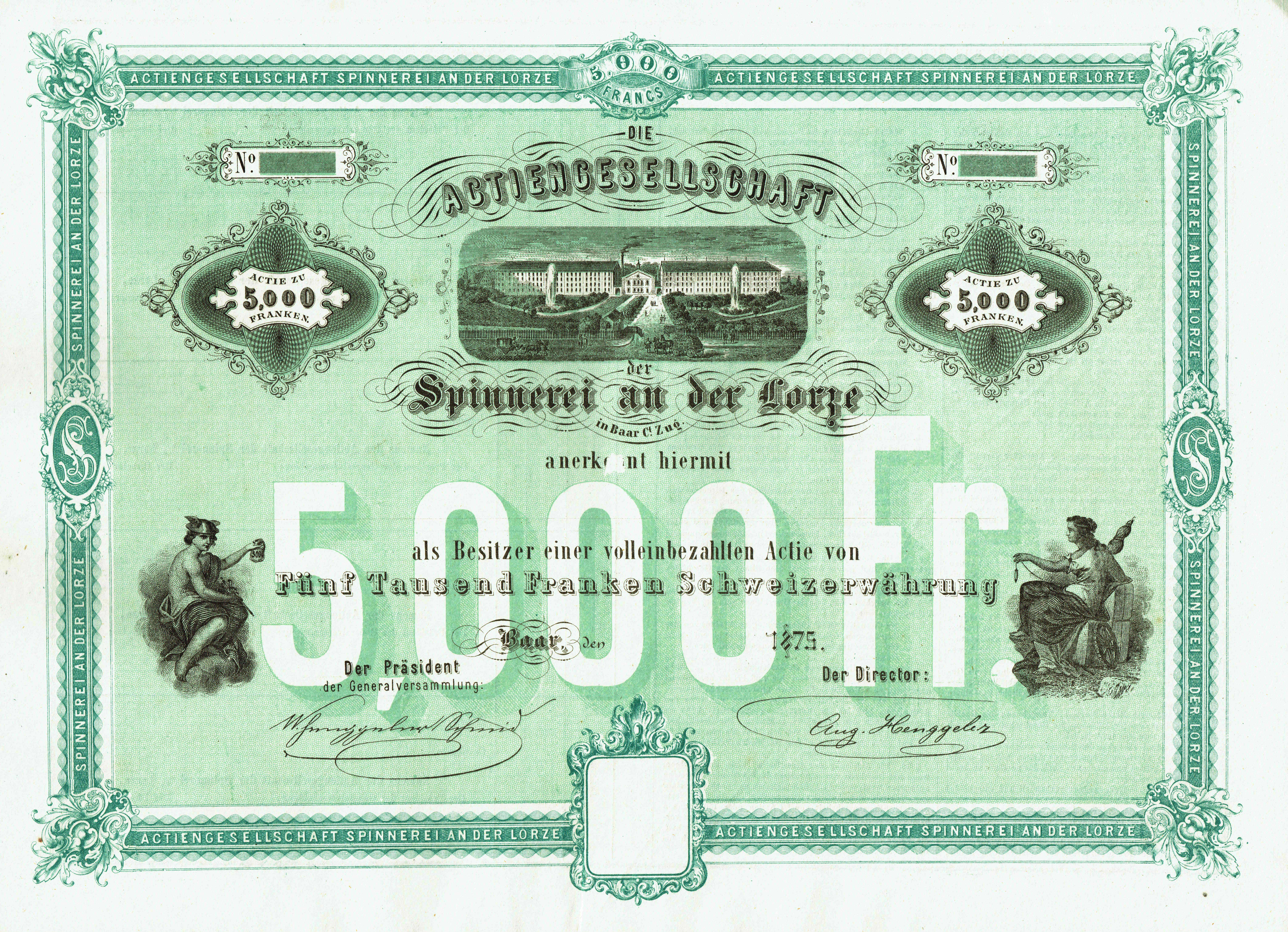 Share of the Spinnerei an der Lorze from 1875, unissued